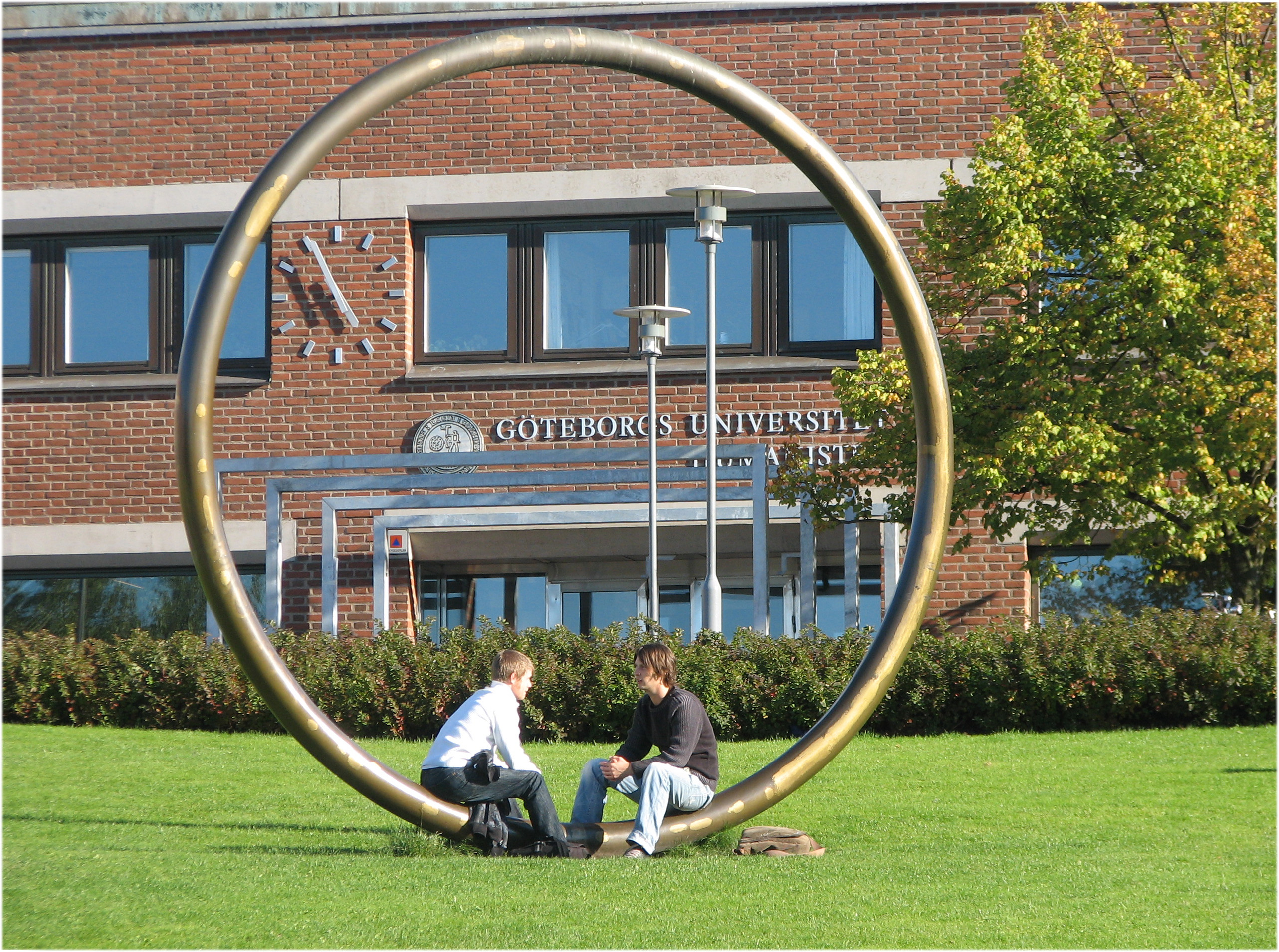 The aluminium bronze sculpture Solringen (the sun ring) by Claes Hake at Renströmsparken in Göteborg, Sweden.